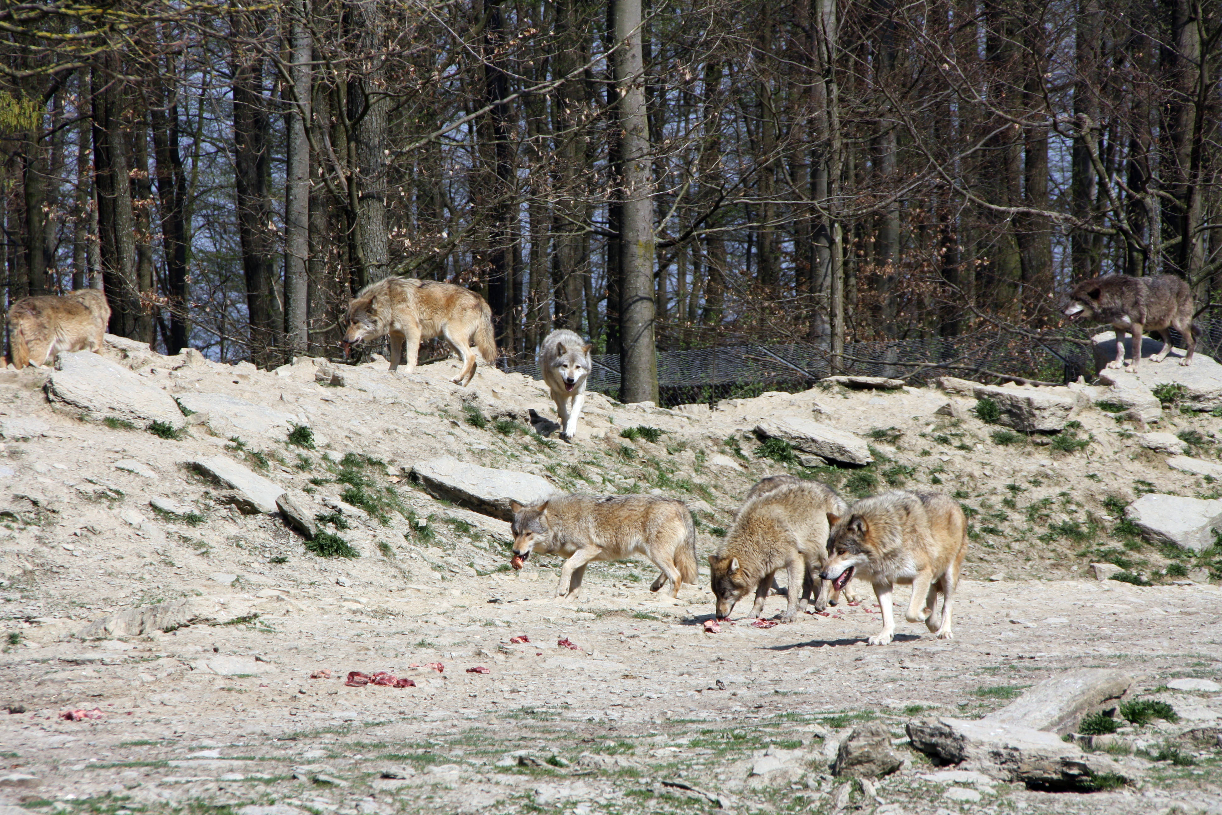 Part of the wolf pack at the feeding in the wildlife park in Bad Mergentheim, Germany